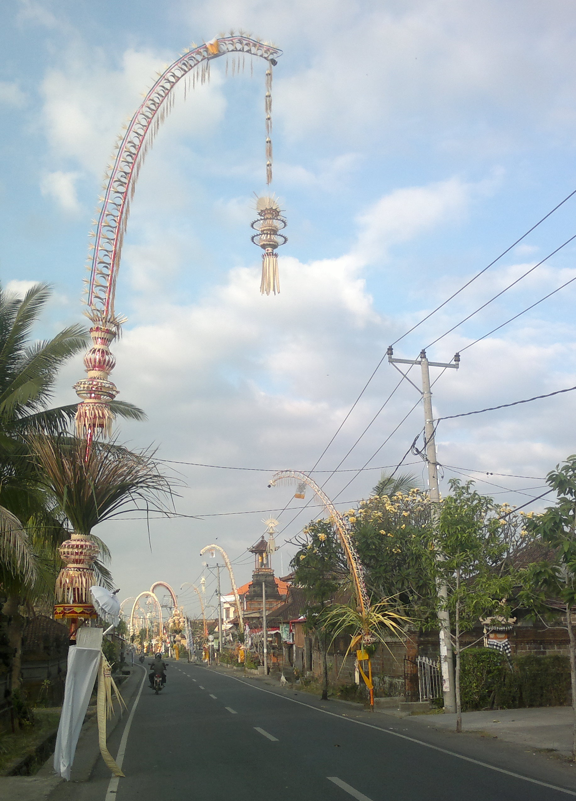 Penjor lining a road in Bali, Indonesia at Galungan